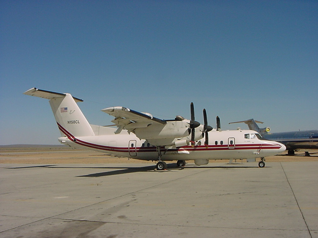 U.S. Army DeHavilland Dash 7 (RC-7A) (N158CL) operated in the Airborne Reconnaissance Low program, seen here at the Mojave Airport.